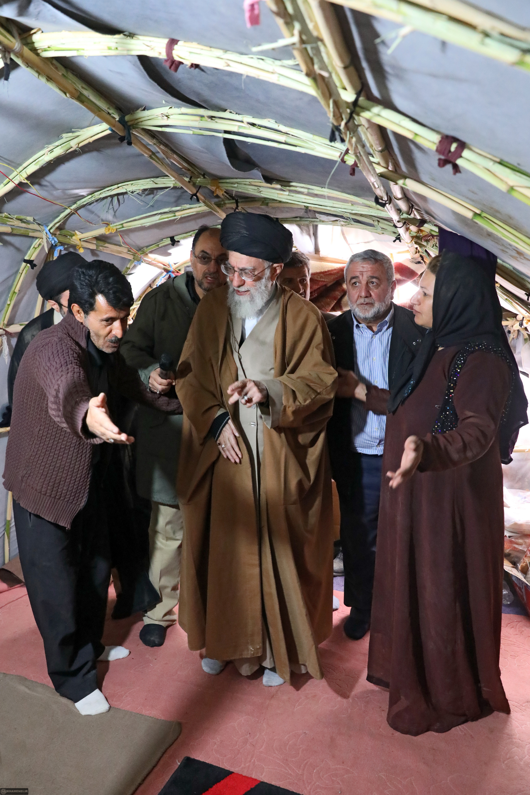 Ayatollah Ali Khamenei, the Supreme Leader of Iran , in the Earthquake-Stricken areas of Kermanshah